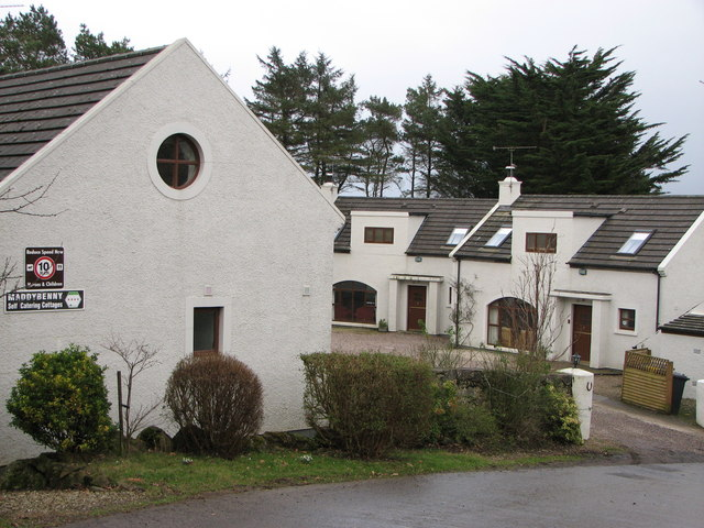 Holiday cottages The self catering cottages at Maddybenny Farm.The owners also run a wellknown B&B as well riding stables.